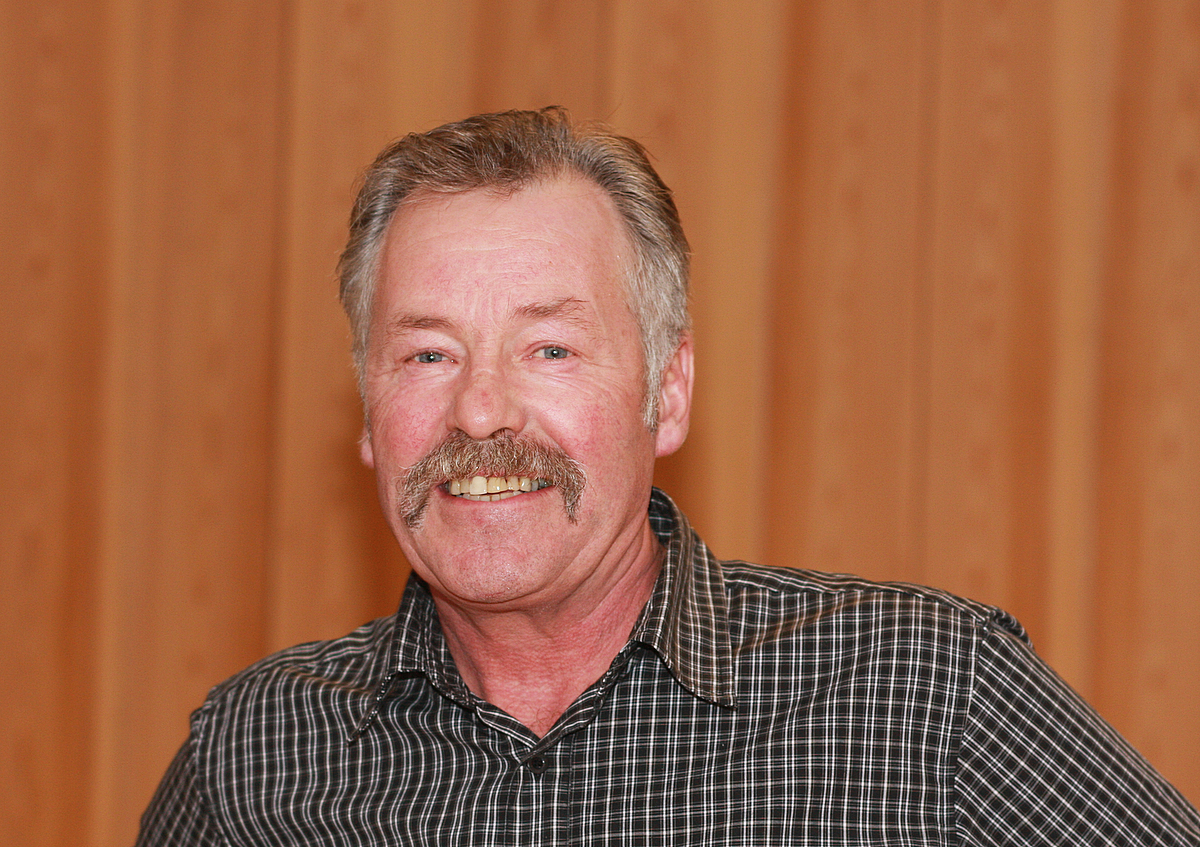 Marthon Skårland, mayor of Bjerkrreim